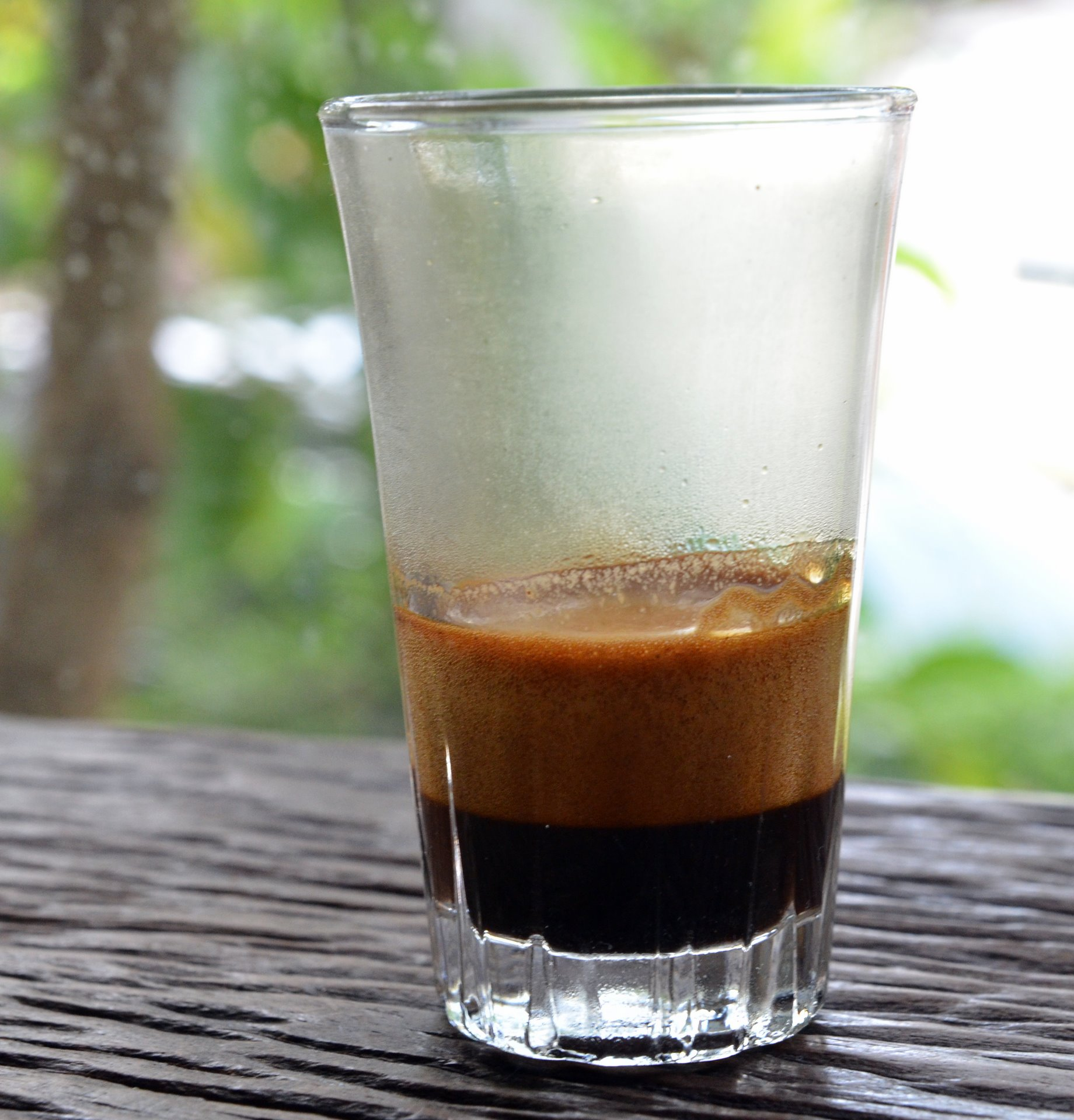 Showing the crema on top of an espresso. This espresso was made with arabica beans from the (fair trade) Akha Ama Coffee farm, which has co-won the World Coffee Cupping Contest in 2010 and 2011. This image was taken at the Akha Ama coffee shop in Chiang Mai, Thailand.